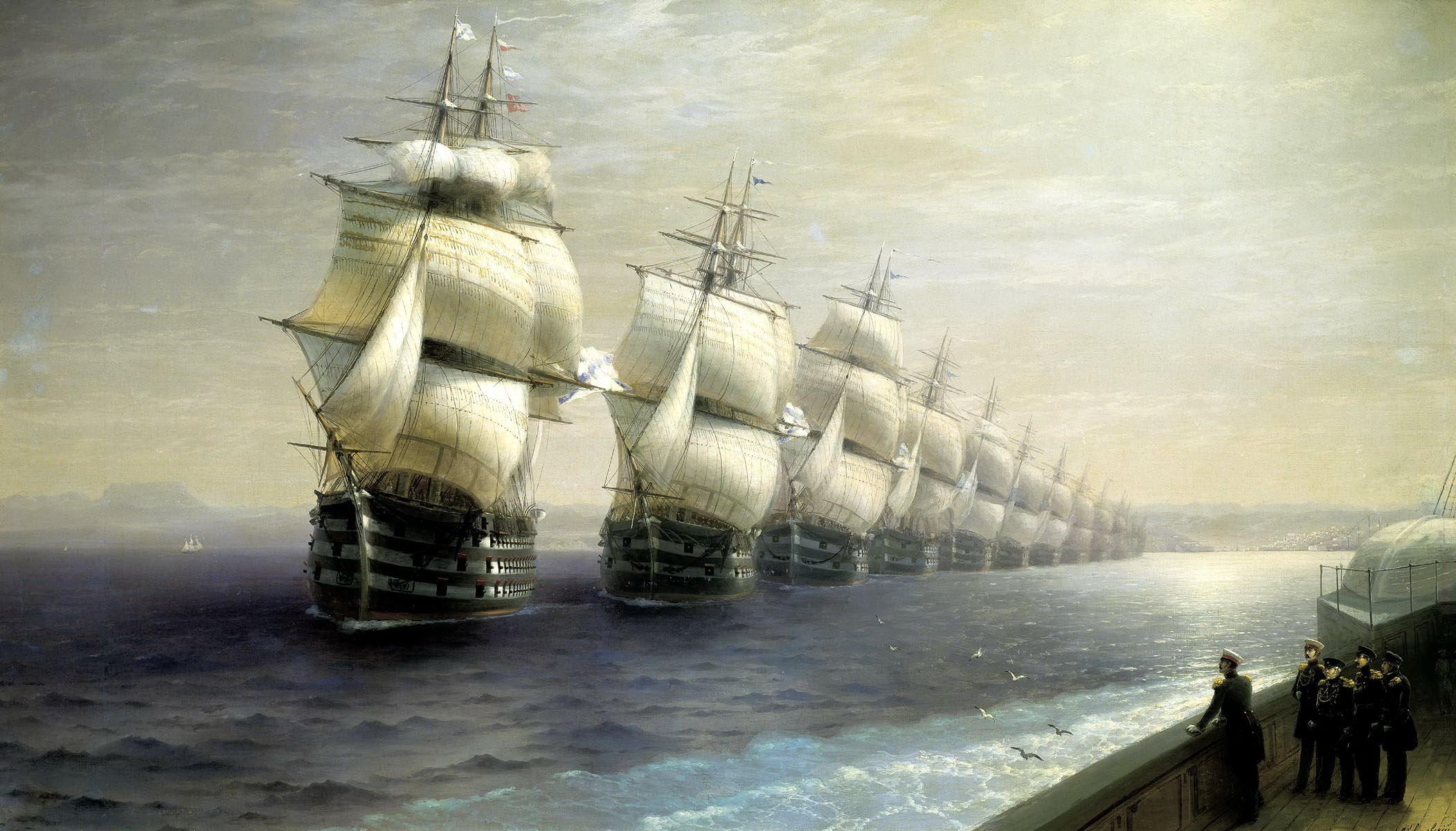 Ivan Konstantinovič Ajvazovskij, Inspection of the Black Sea Fleet in 1849, 1886.